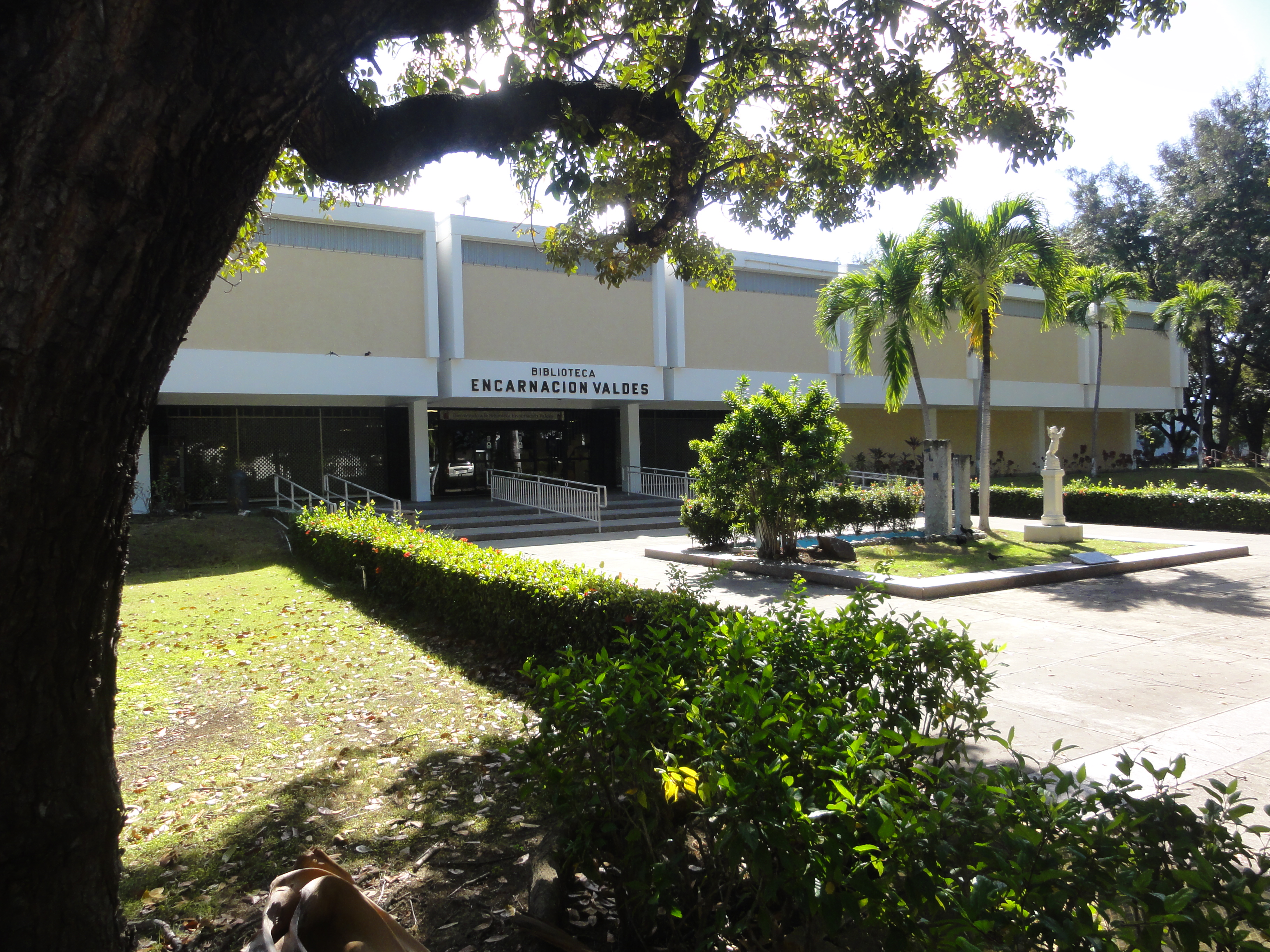 Biblioteca Encarnación Valdés, PUCPR, Ave. Las Américas, Bo. Canas Urbano, Ponce, Puerto Rico, mirando al sureste